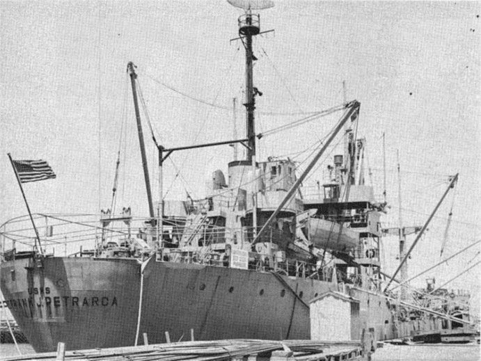 Pvt. Frank J. Petrarca (-AK-250) moored, date and place unknown. US Navy photo from "All Hands" magazine, January 1961